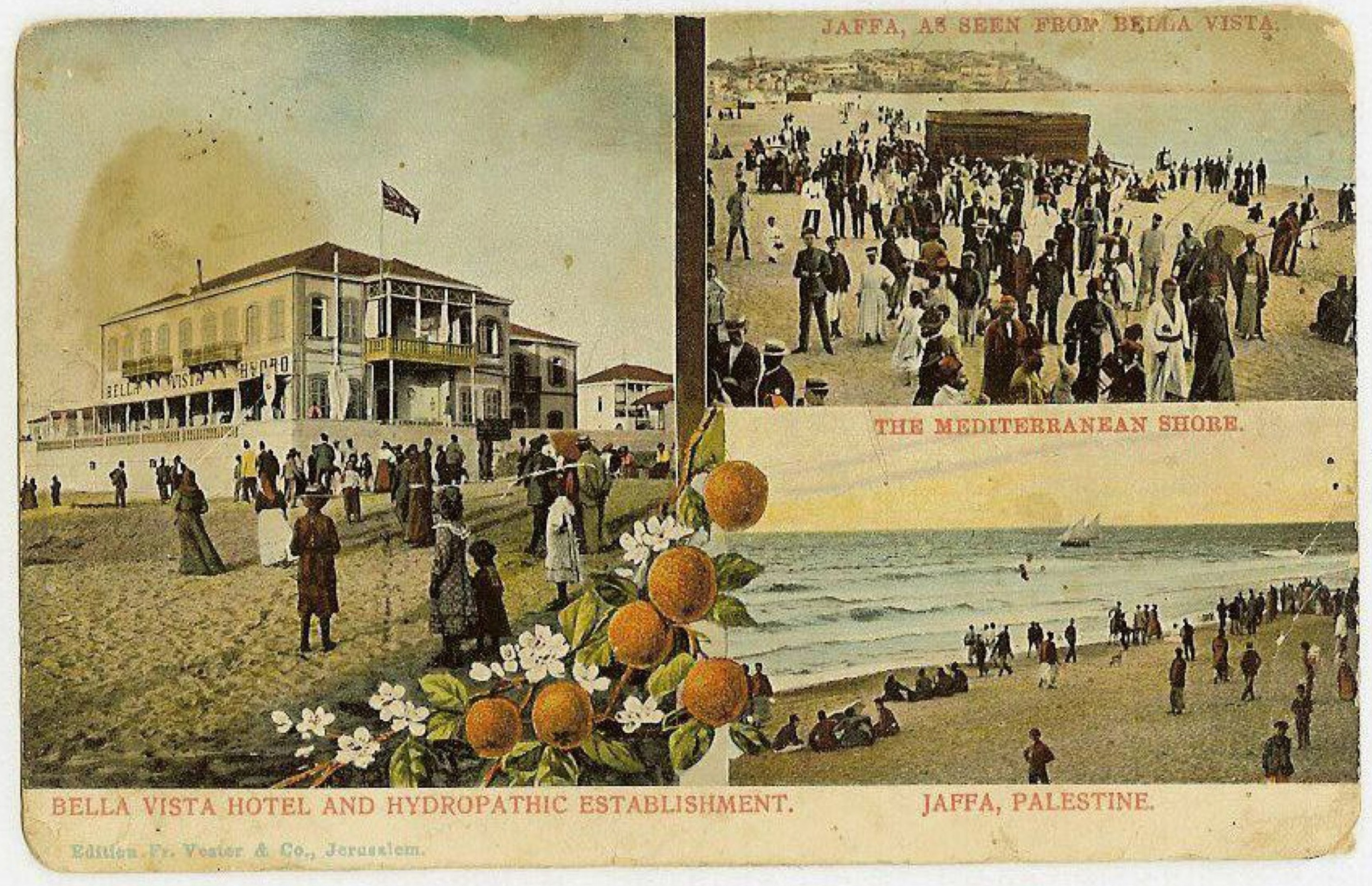 BELLA VISTA HOTEL AND HYDROPATHIC ESTABLISHMENT. Manshiya Neighborhood, on the border between Jaffa and Tel Aviv.